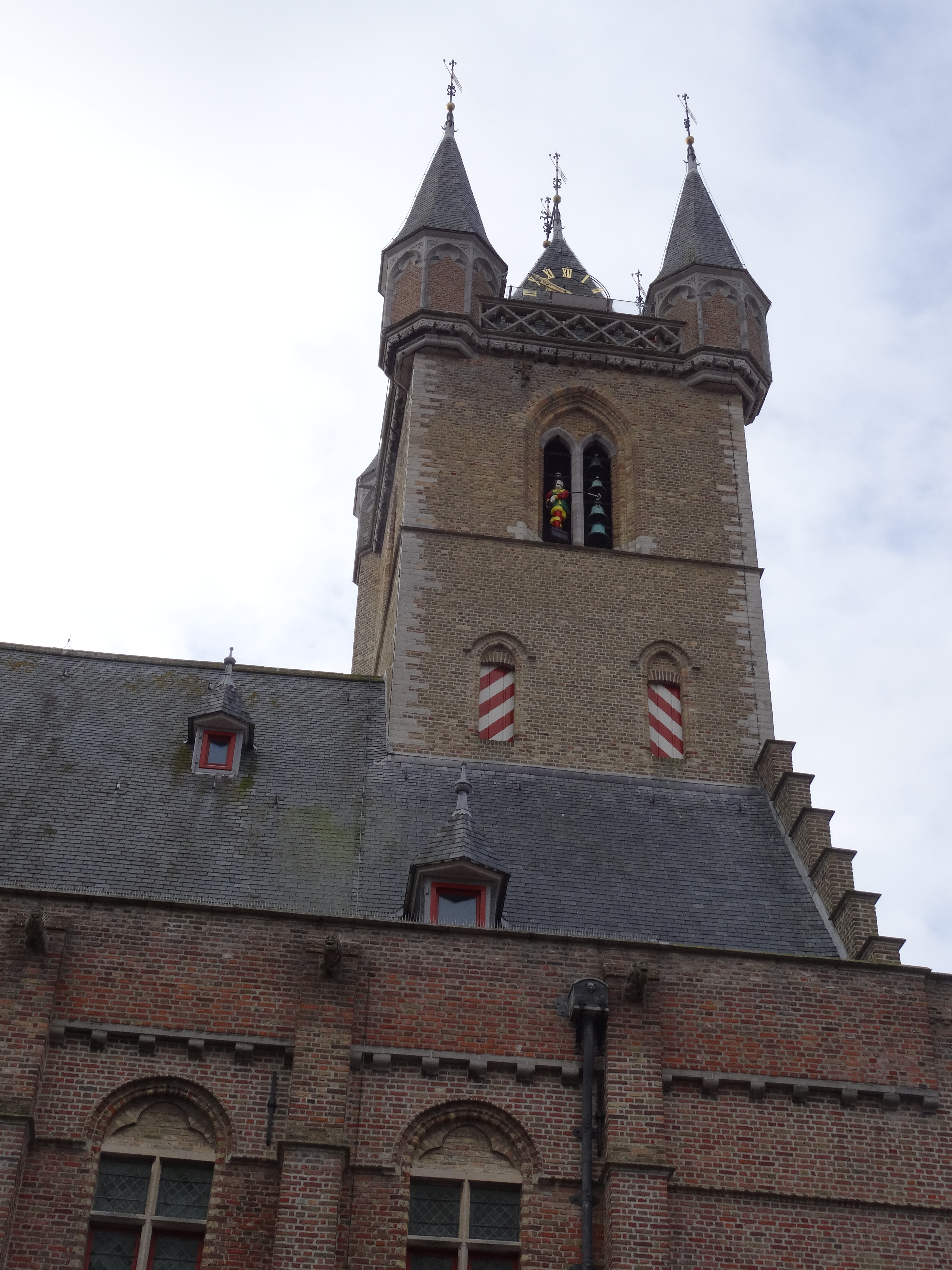 Jantje van Sluis in the tower of the Belfry of Sluis